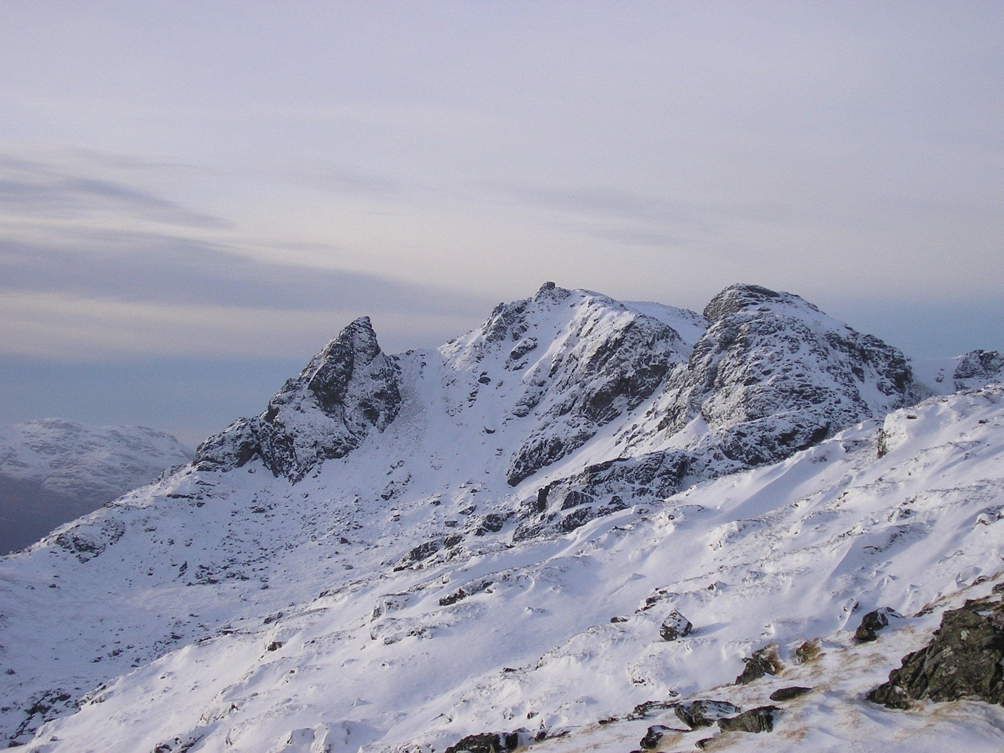 The Cobbler, in the "Arrochar Alps" of Scotland